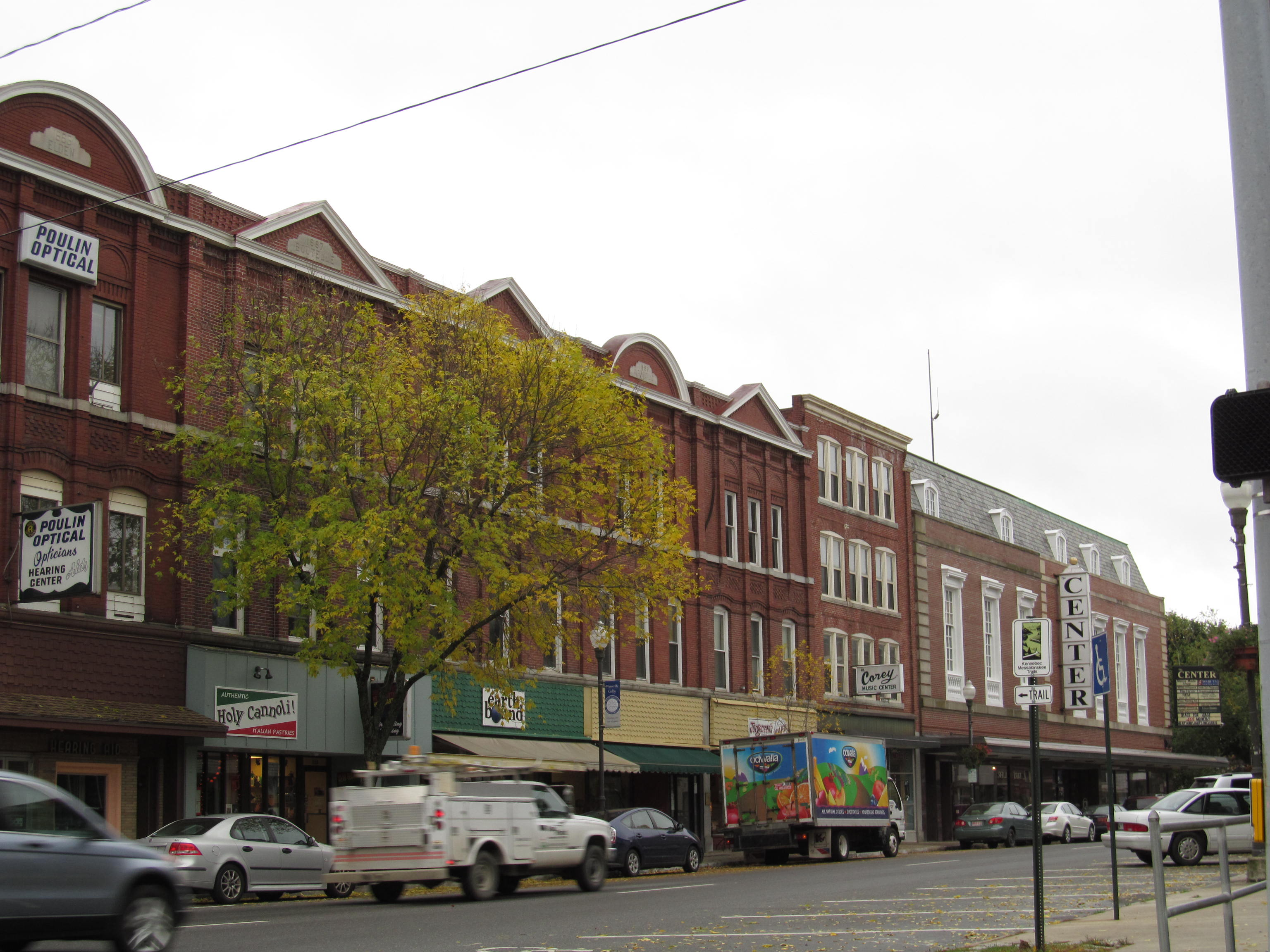 Waterville Main Street Historic District, Waterville, Maine.